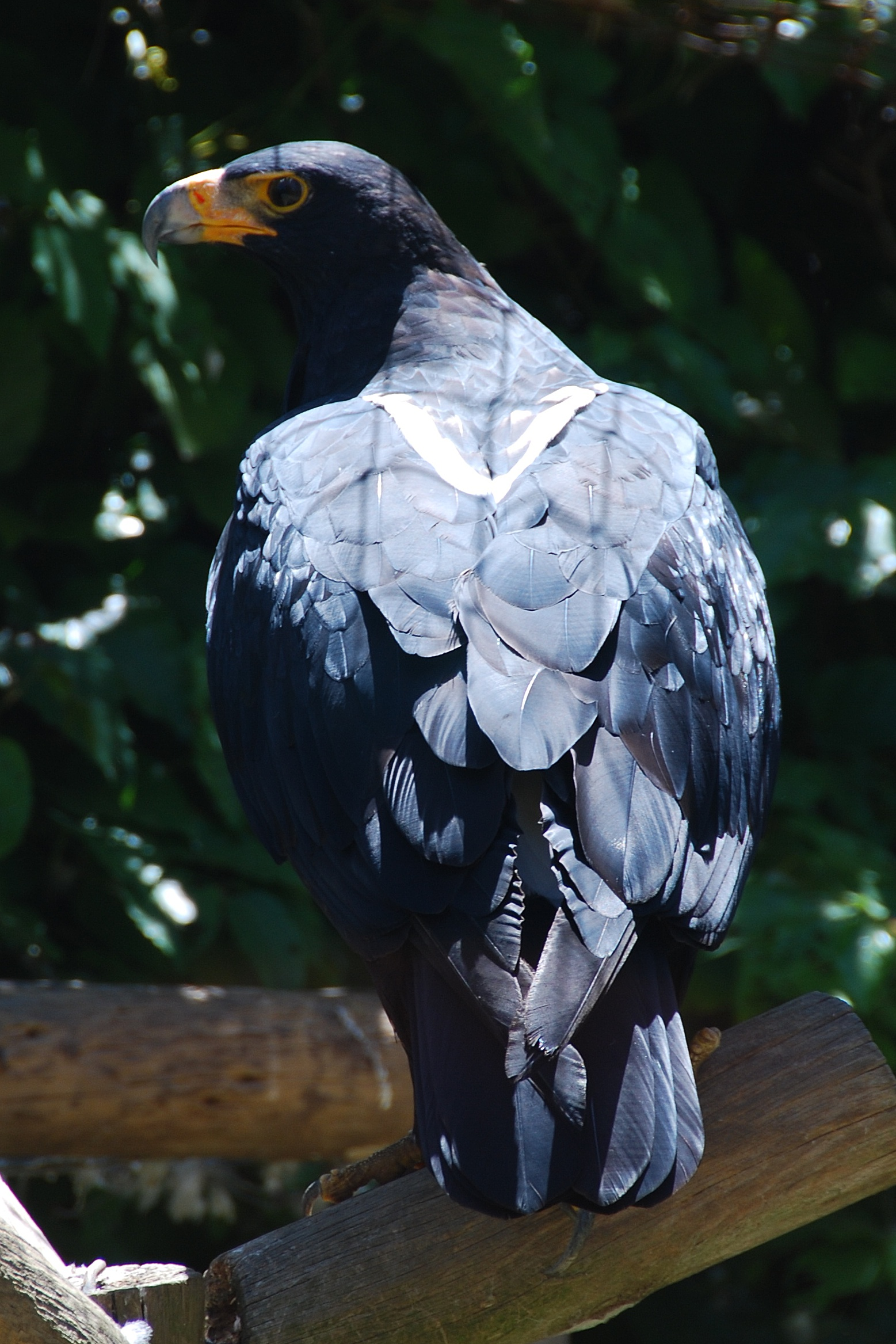 An African Black Eagle (Verreaux's Eagle) Aquila verreauxii. Photographed at the "World of Birds", Houtbaai, South Africa